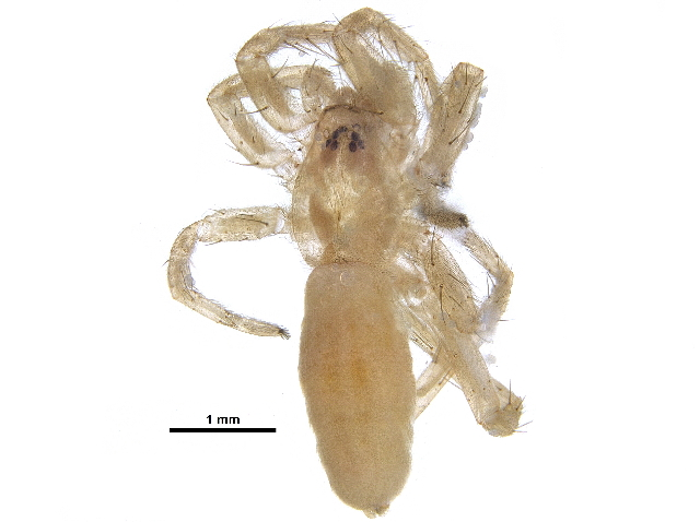 immature Arachosia cubana from Ontario, Canada